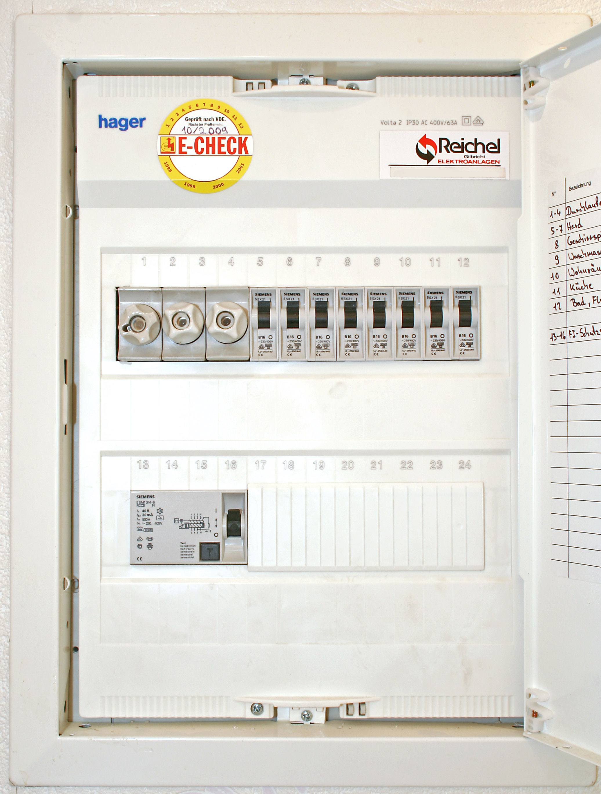 Fuse box with fuses, circuit breaker and residual current device.